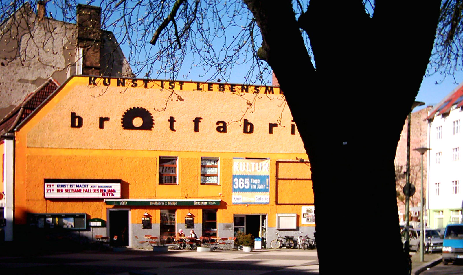 Brotfabrik. A house for free culture in Berlin-Pankow.